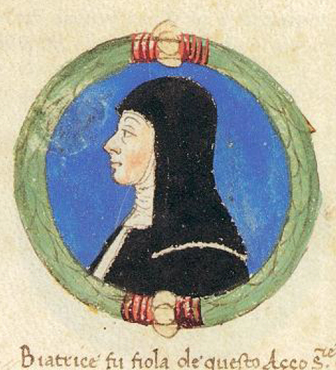 Retrospective portrait of Blessed Beatrice d'Este